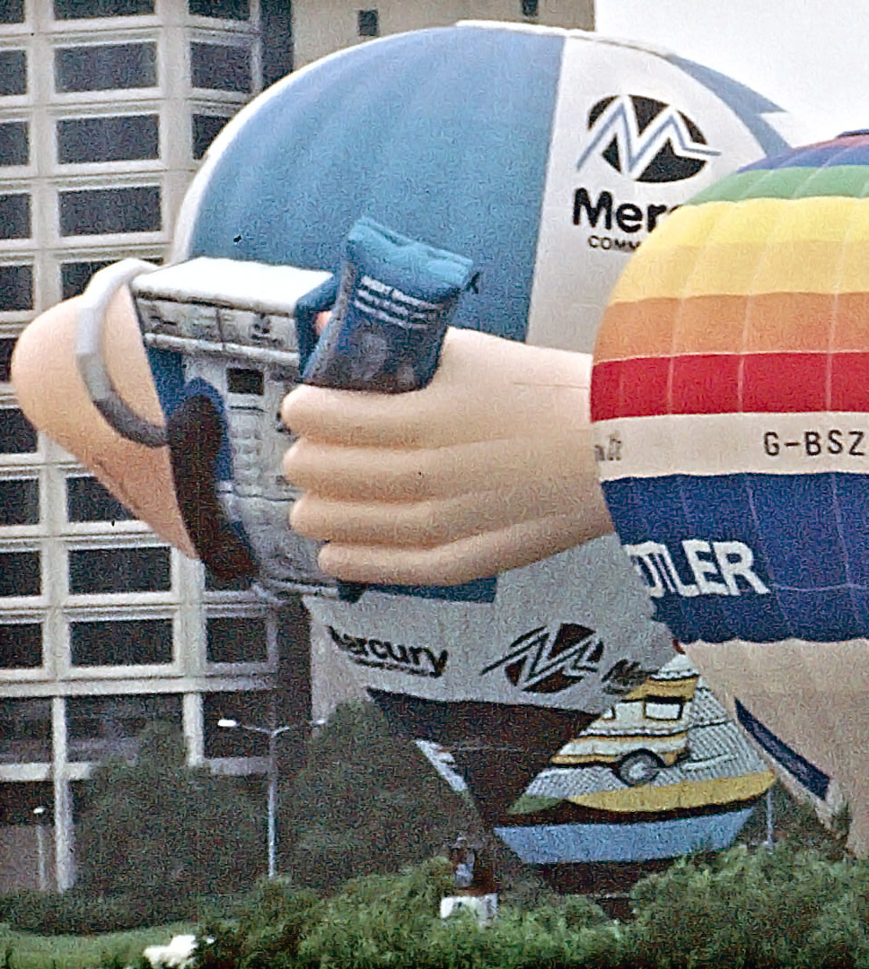 Hot air balloon G-BVBX advertising the now-defunct Mercury Communications payphone service, seen in Dundee, Scotland in 1994.